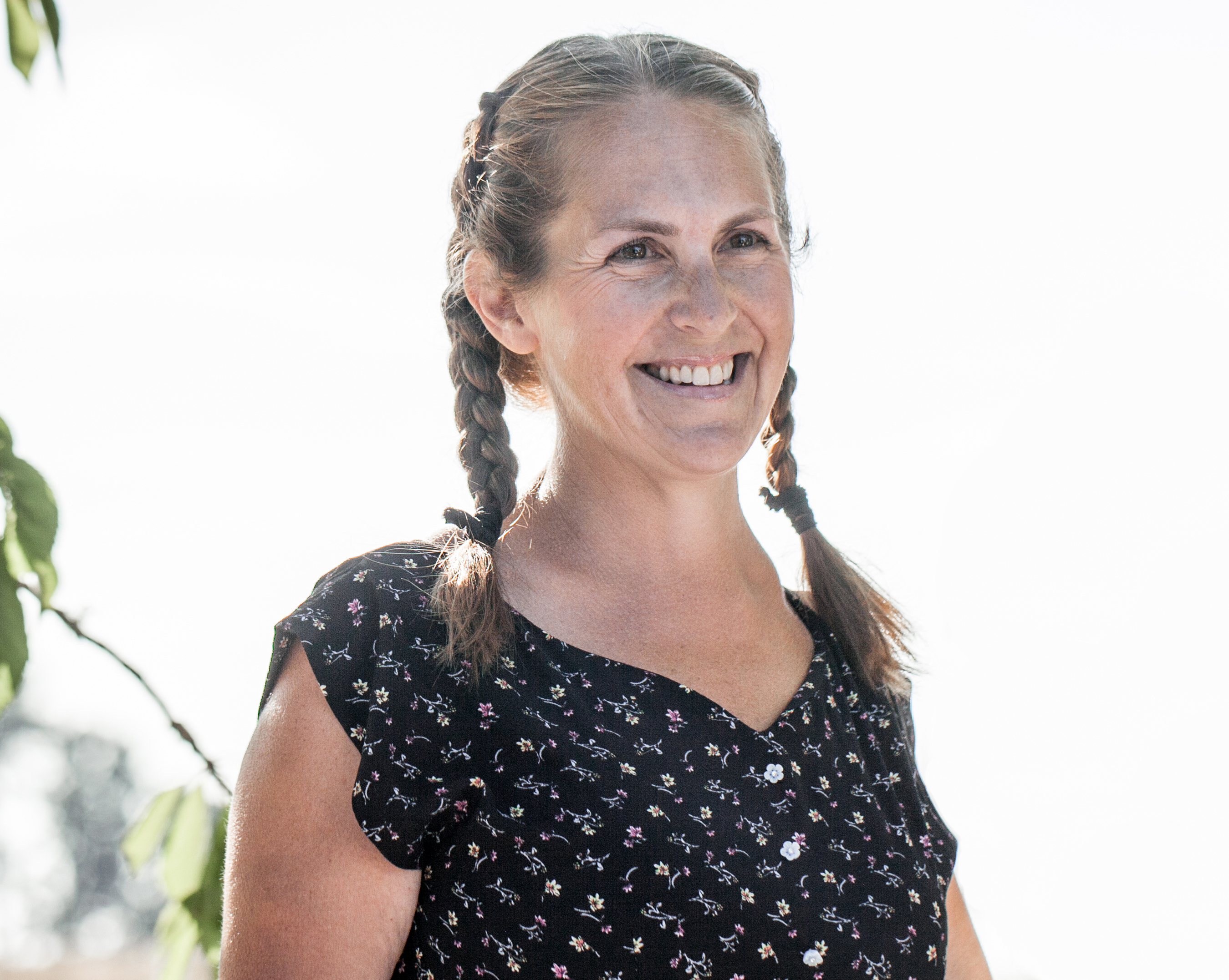 This is a photo of Erika Polmar that I took.